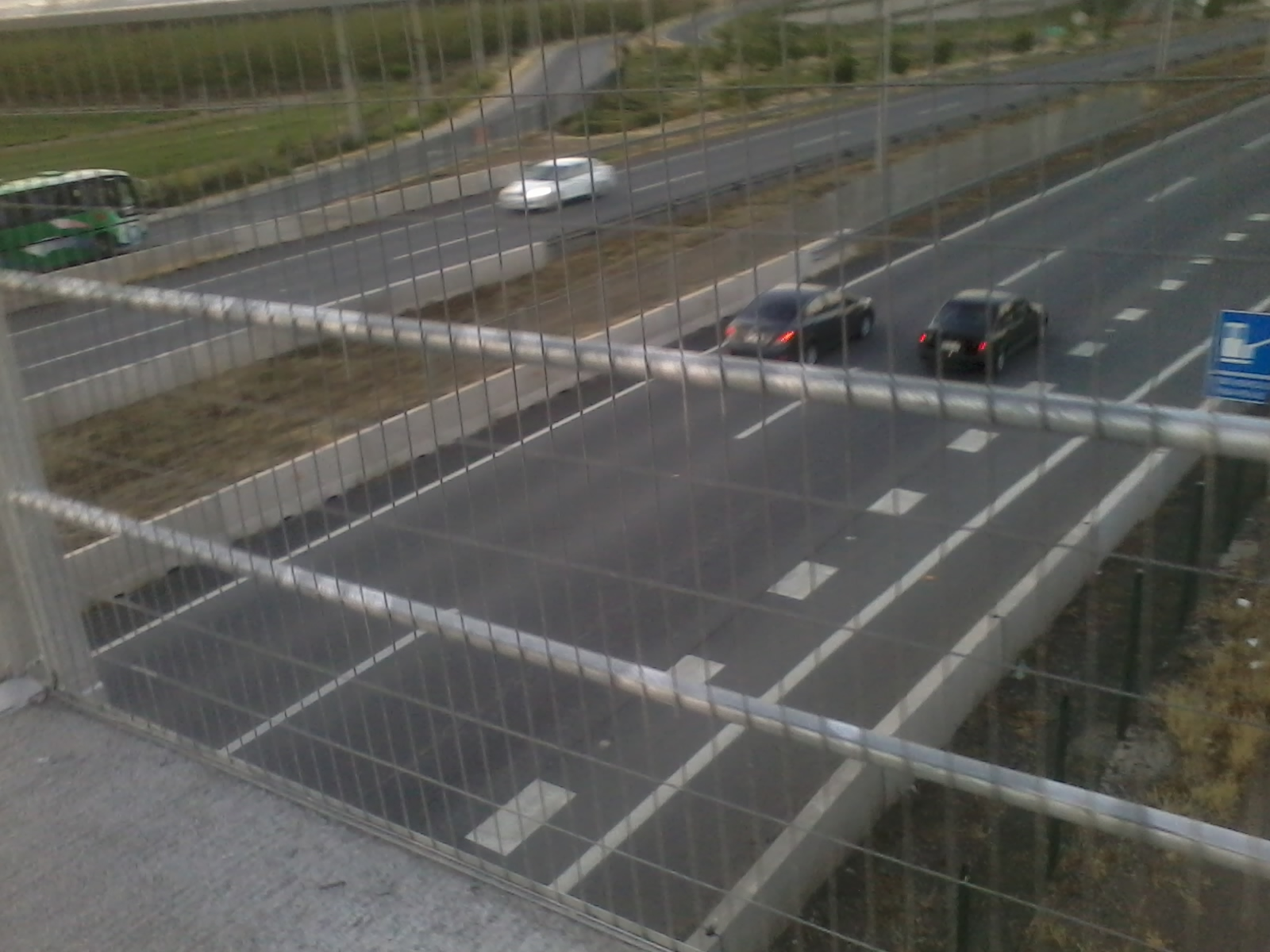 Highway "Los Libertadores" left with "Carretera San Martin"